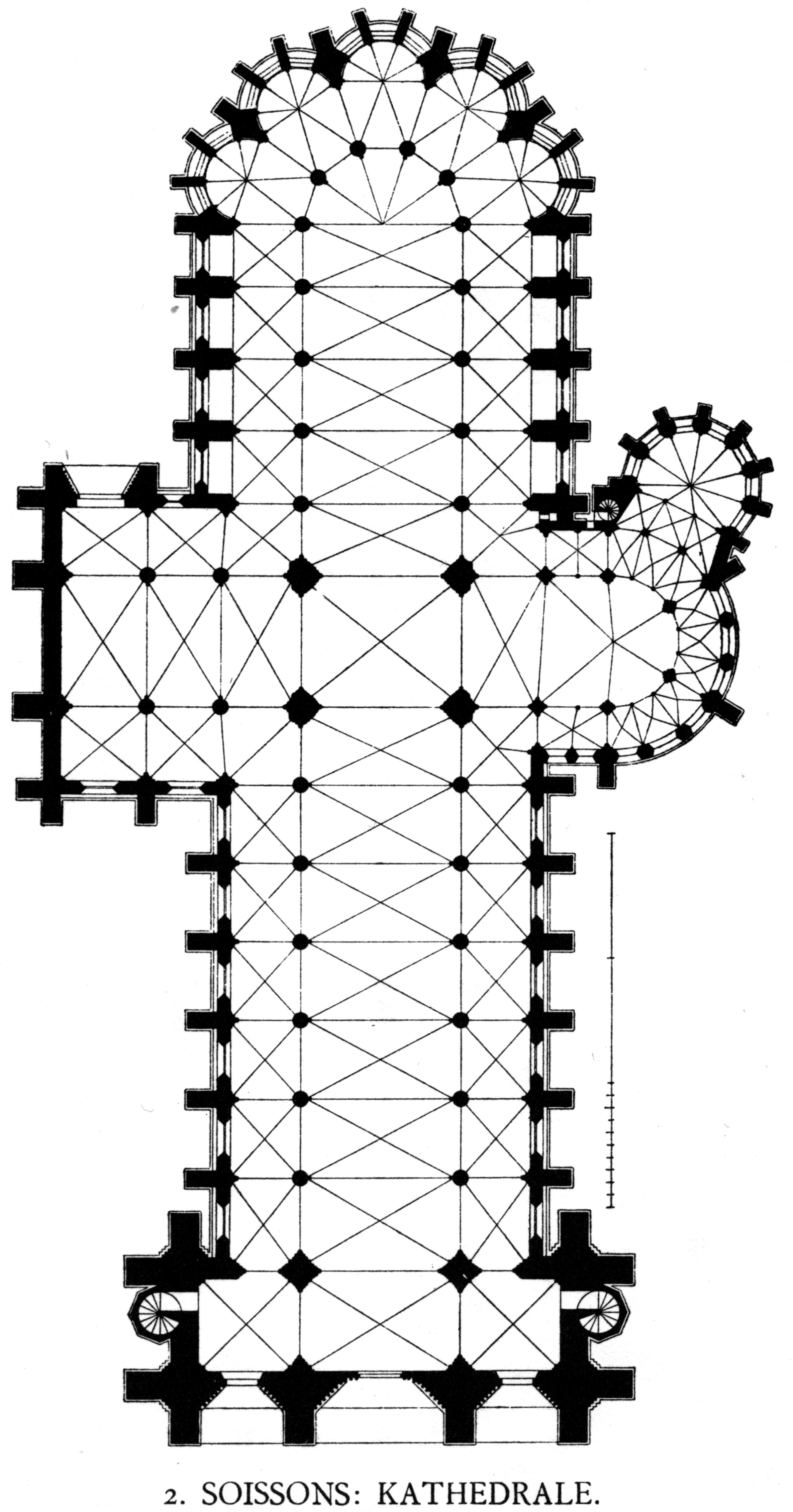 Soissons, Cathedrale